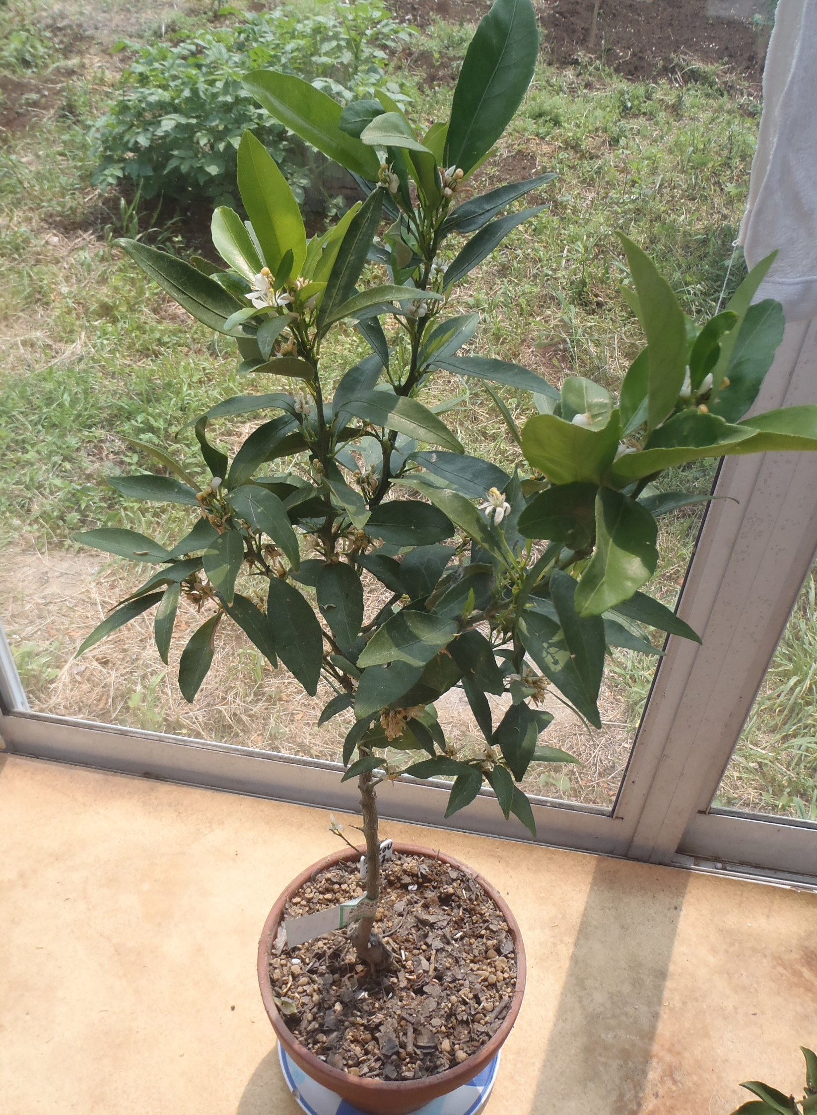 Reikou